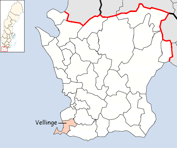 Vellinge Municipality in Scania, Sweden Designed by me. Mere outlines are a PD source from